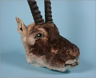 The endangered Tibetan antelope (Pantholops hodgsonii), also known as chiru. The antelope are killed for their wool, which is woven into the luxury fabric "shahtoosh", threatening the species' survival.